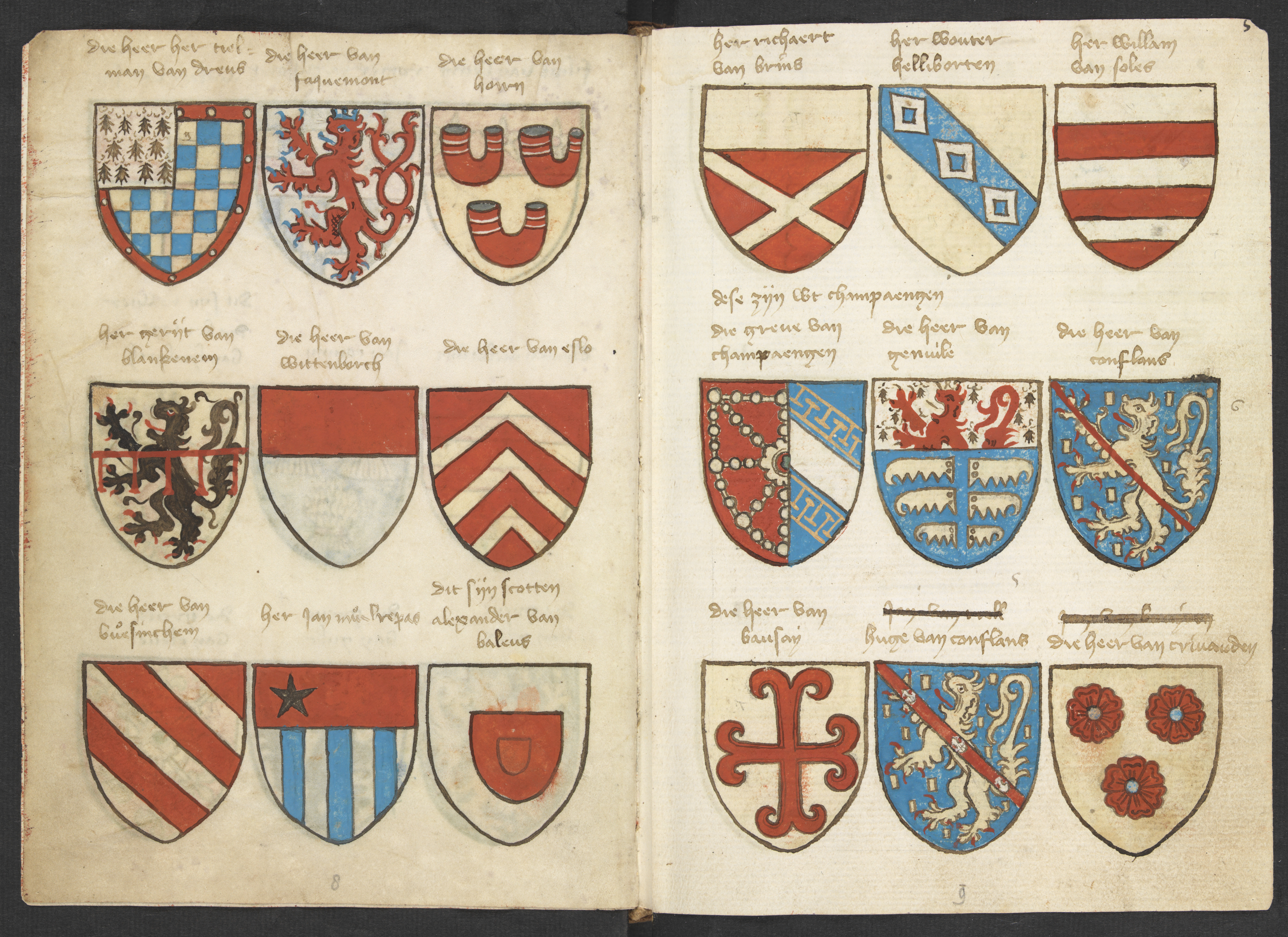 Lefthand side folio 004v; righthand side folio 005r from the Beyeren armorial / Wapenboek Beyeren